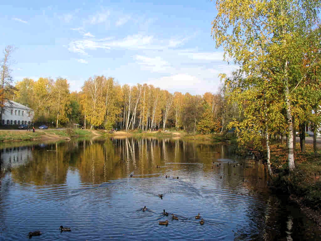 The pond in Udelny Park, Saint-Petersburg